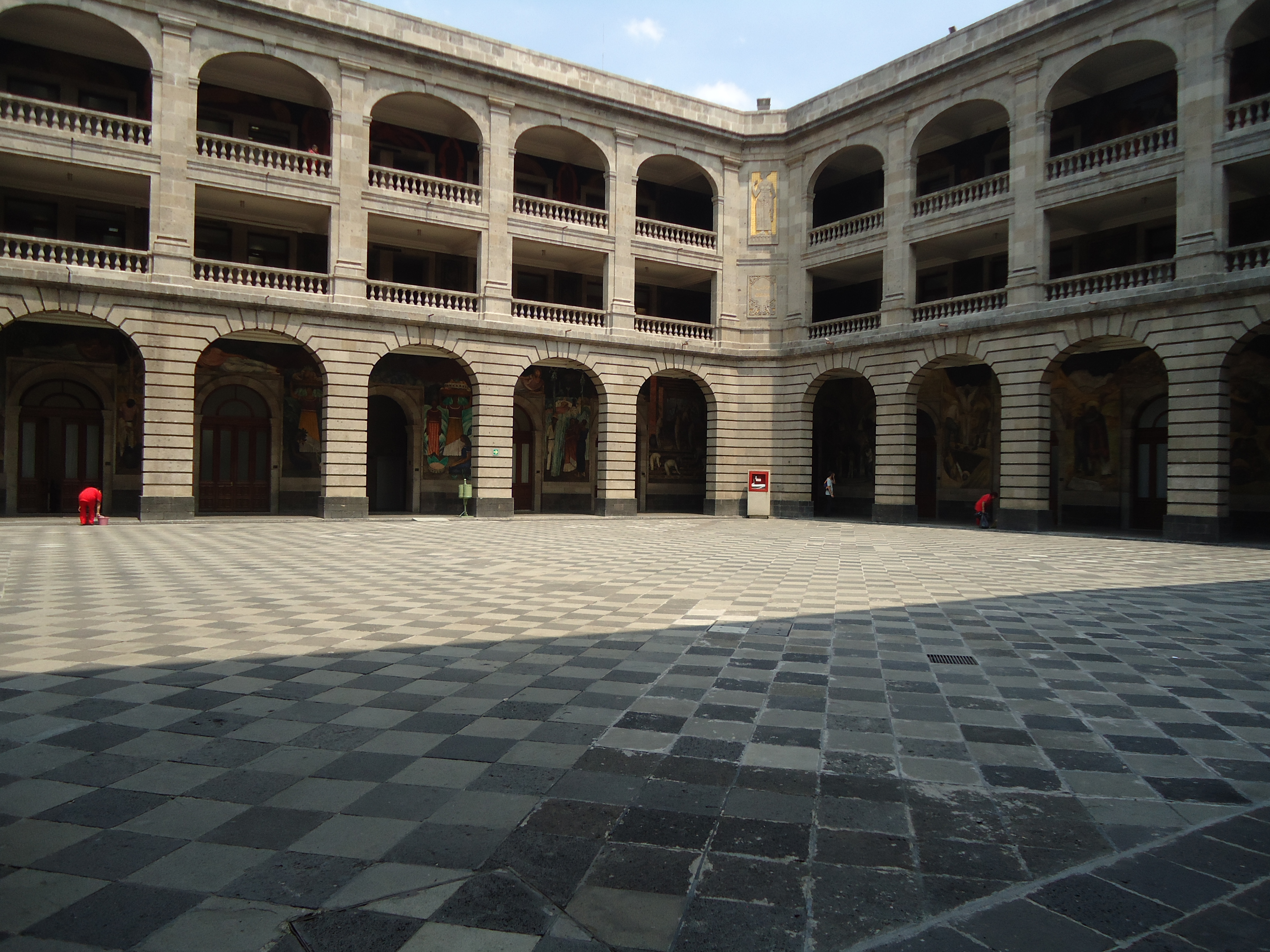 Patio with Rivera Murales in the SEP